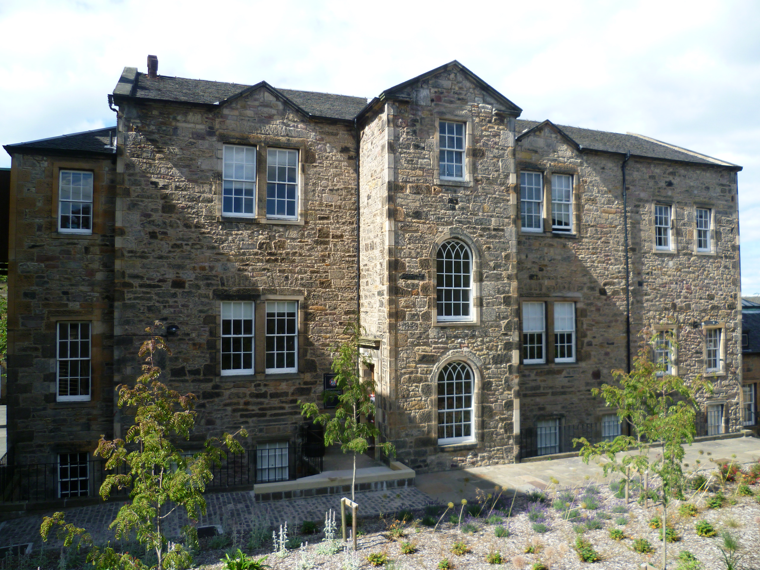 Old Surgeons' Hall from Drummond Street